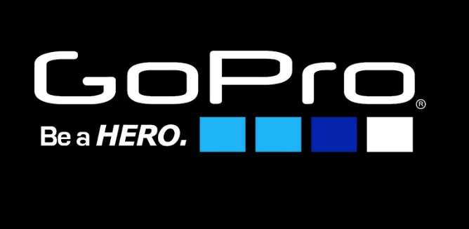 GoPro raster logo with slogan "Be a HERO." and black background.